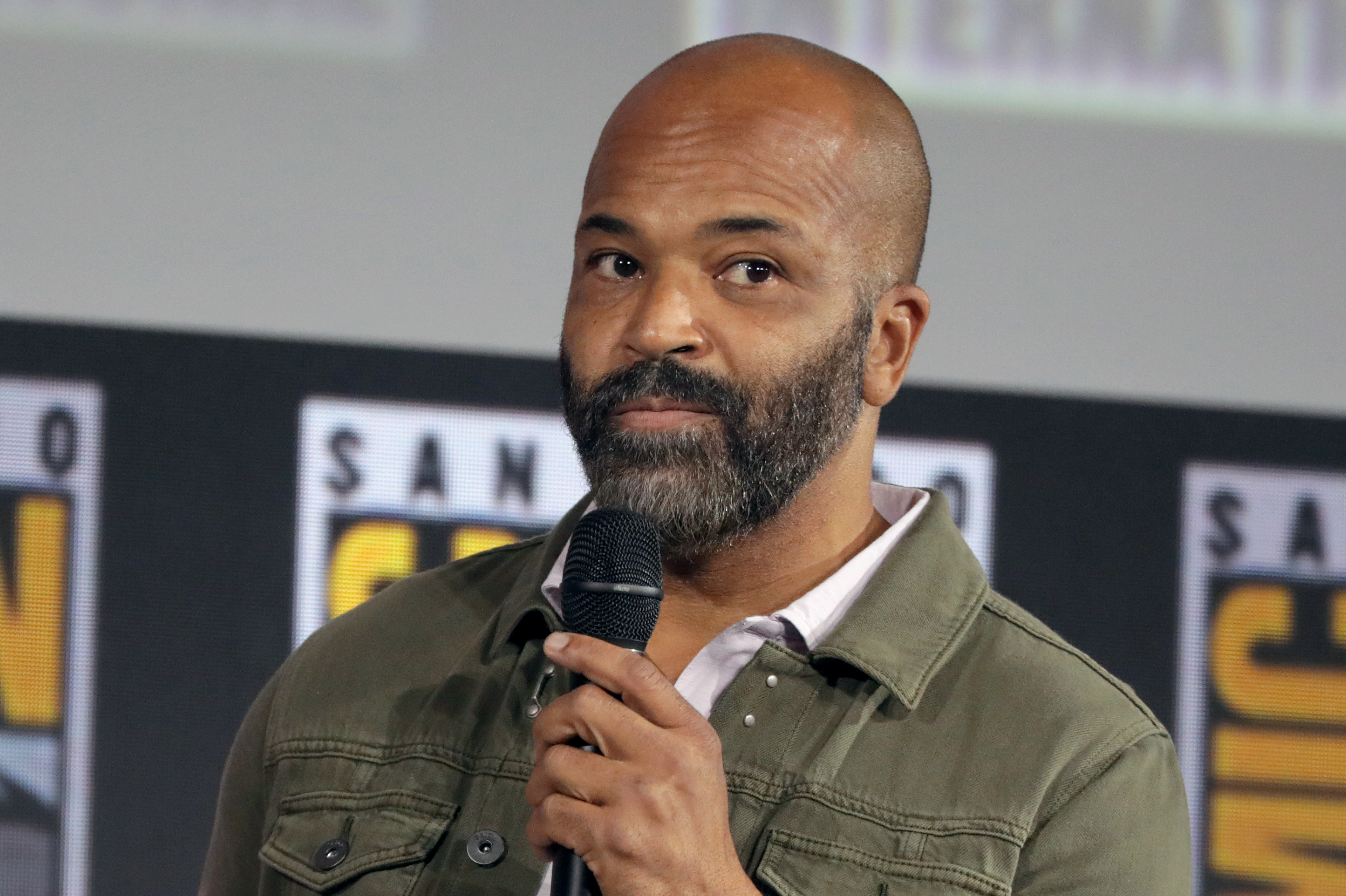 Jeffrey Wright speaking at the 2019 San Diego Comic Con International, for "What If...?", at the San Diego Convention Center in San Diego, California.